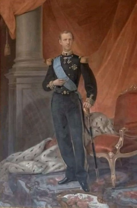 Georgios I, King of Greece (b.1845-d.1913)